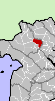 Cho MoiDistrict, An Giang Province, Vietnam.